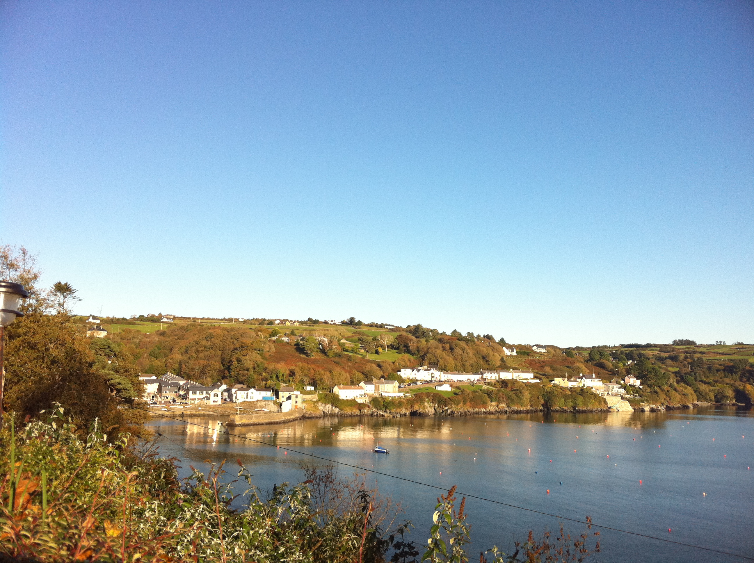 The harbour and village of Glandore, West Cork